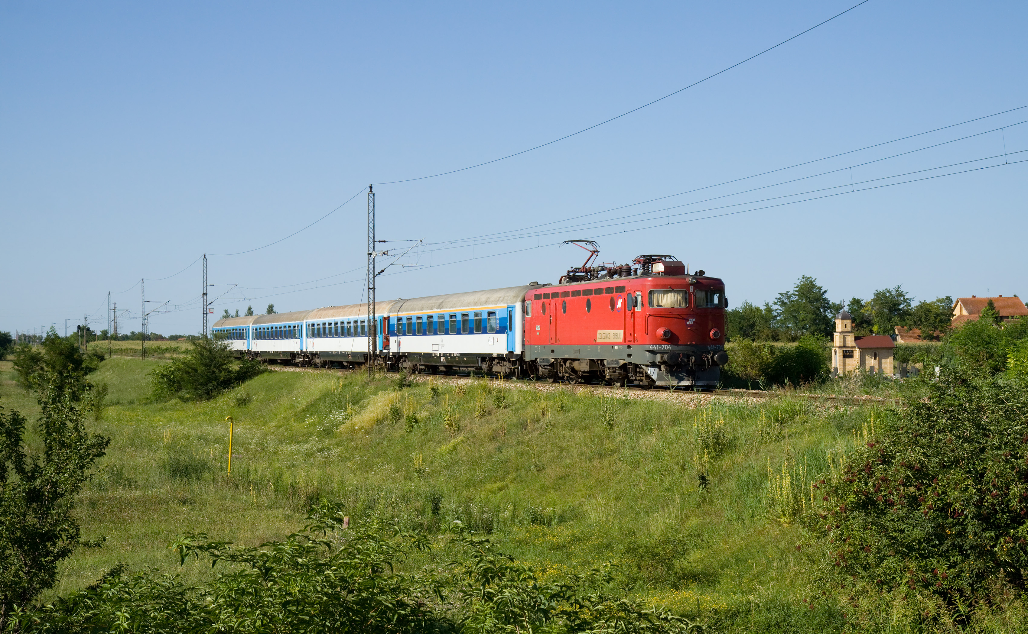 Železnice Srbije class 441 on its way towards Novi Sad, at Novi Zednik.